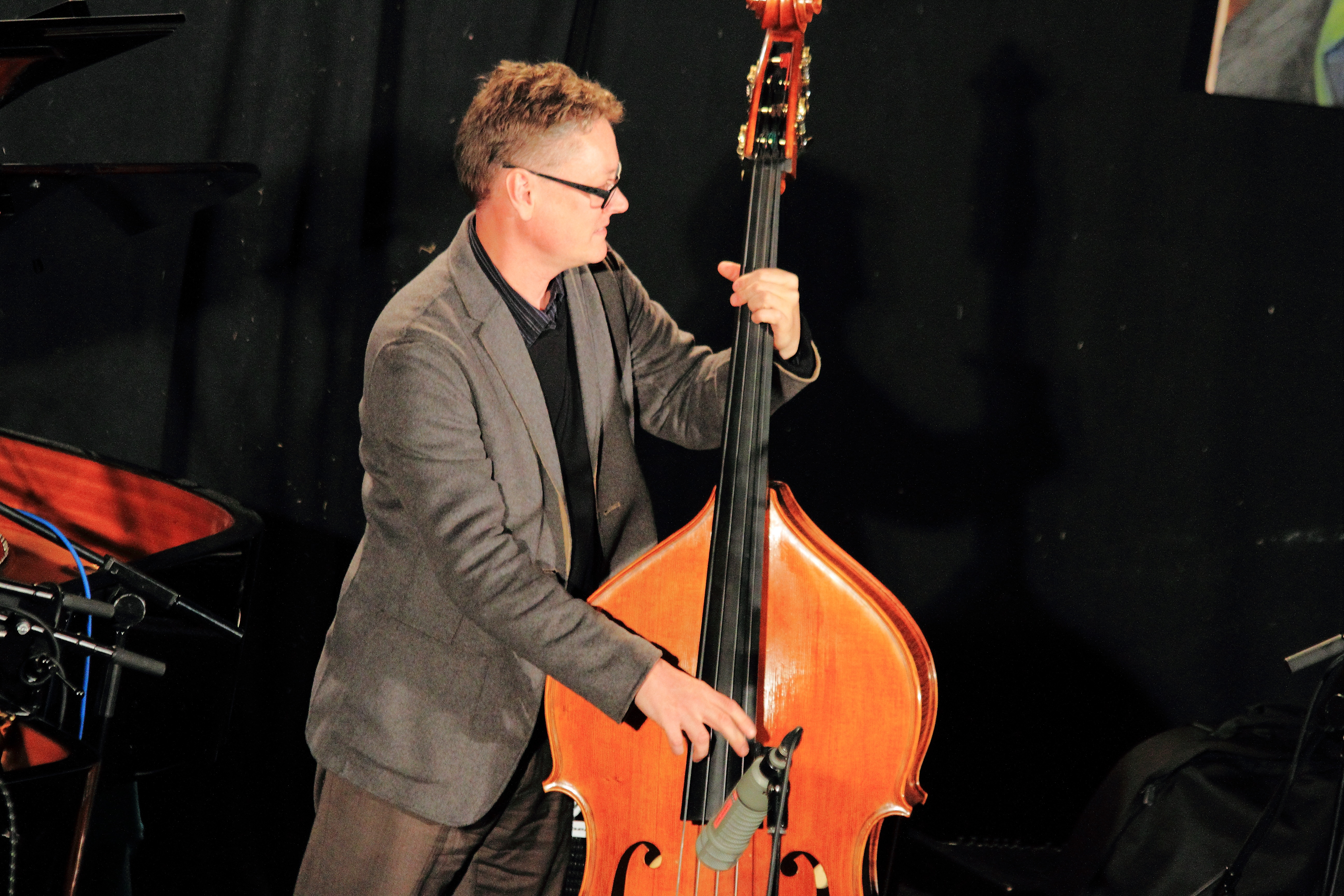 Doug Weiss with the Al Foster Quartet at INNtöne Jazzfestival 2016